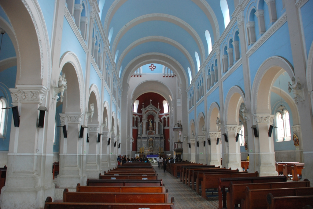 Interior of church of Cáqueza, Cundinamarca, Colombia